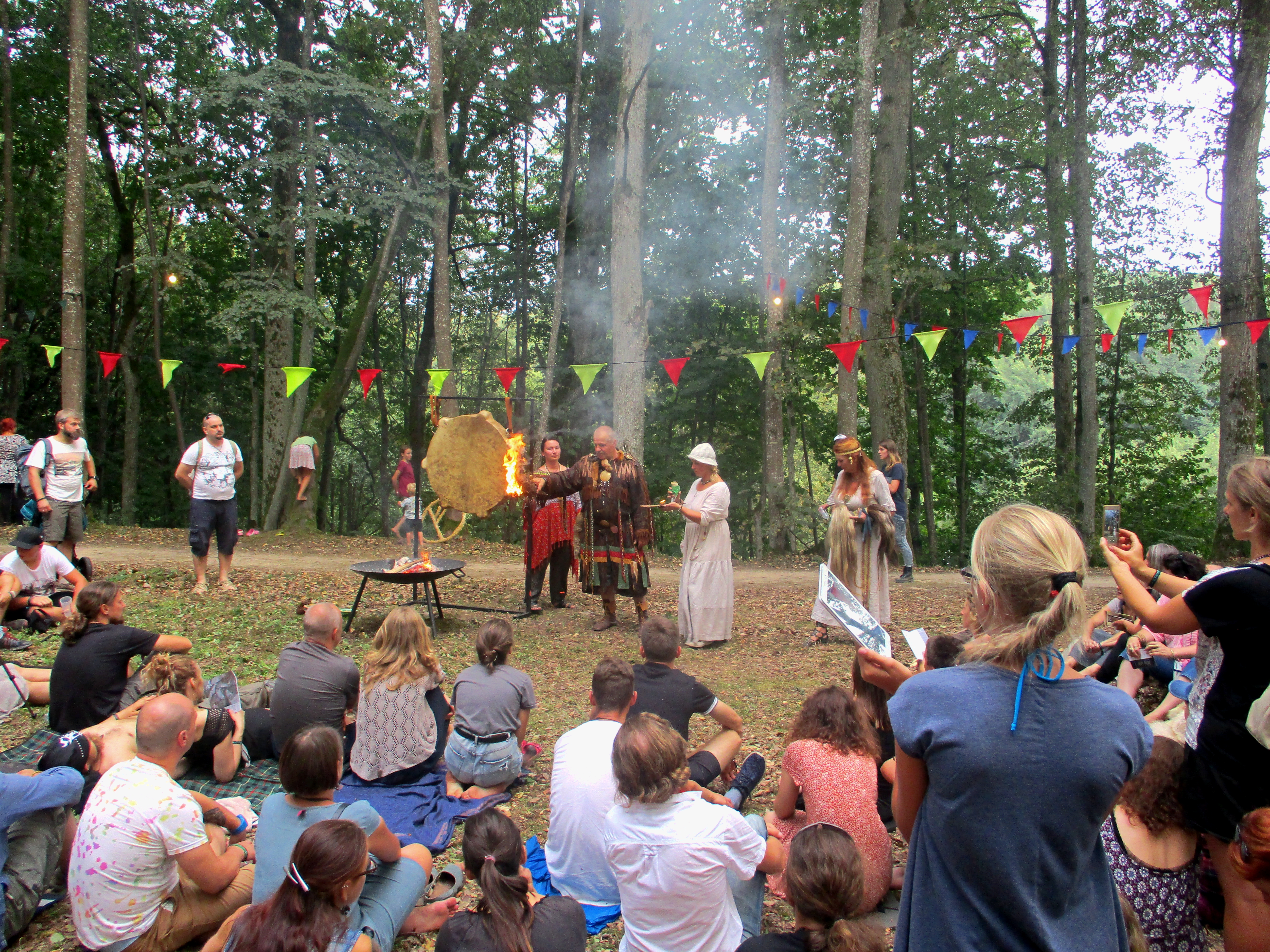 A rite with shaman Petras Dabrišius at the Mėnuo Juodaragis XXI Magic Yard.